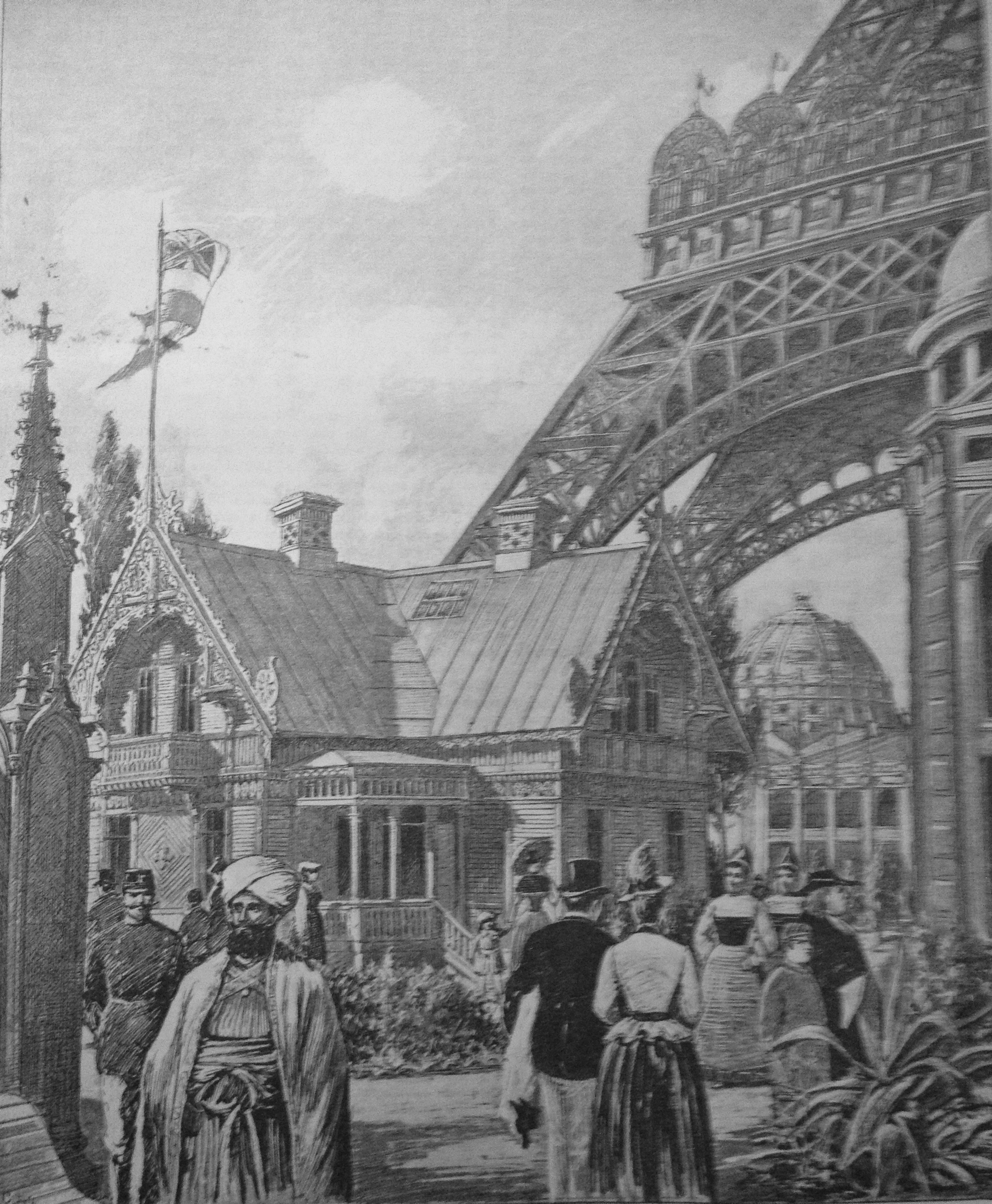 Swedish pavillion at World expo, paris 1889